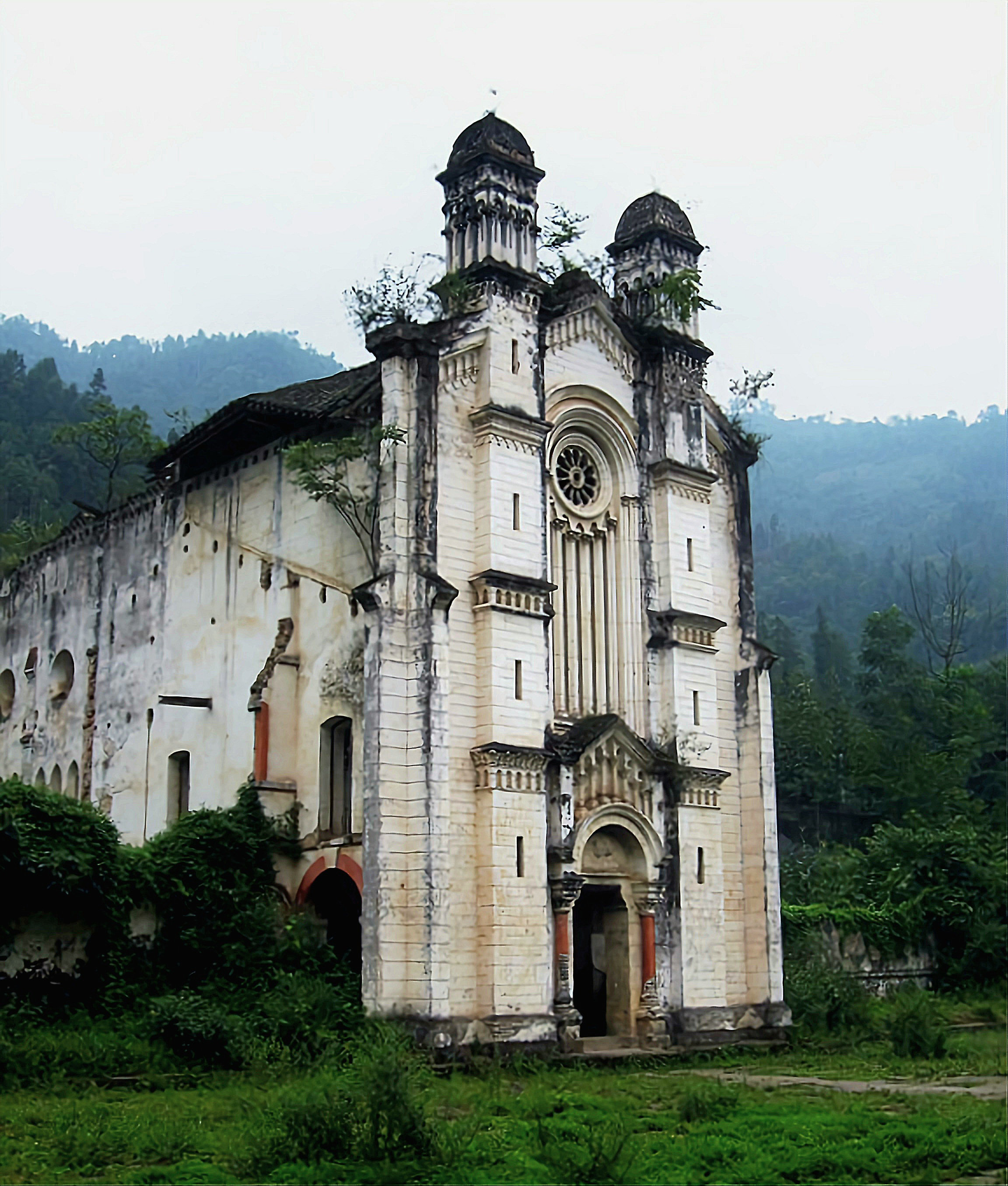 Annunciation Cathedral in Chengdu, Sichuan, China